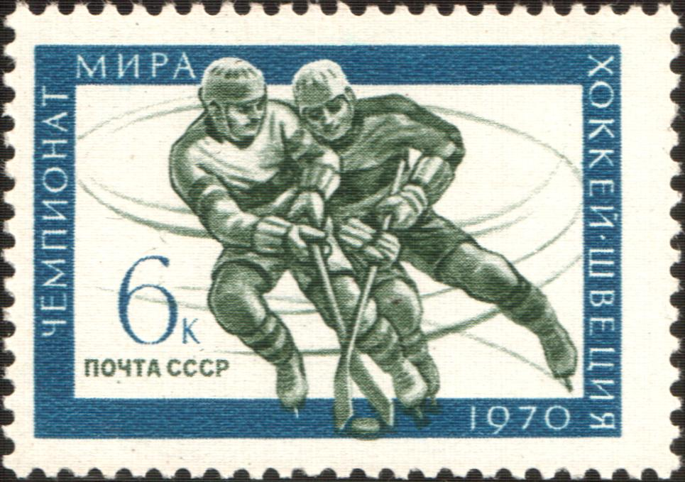 USSR stamps: Ice hockey, Stockholm, Sweden. Series: World Championships